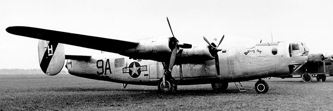 Consolidated B-24J-150-CO Liberator 44-40159 492nd BG 858th BS "Battling Boop" 11interned when aircraft landed in Sweden after attacking an airfield at Bremerhaven, Germany, Jun 18, 1944. MACR 6767